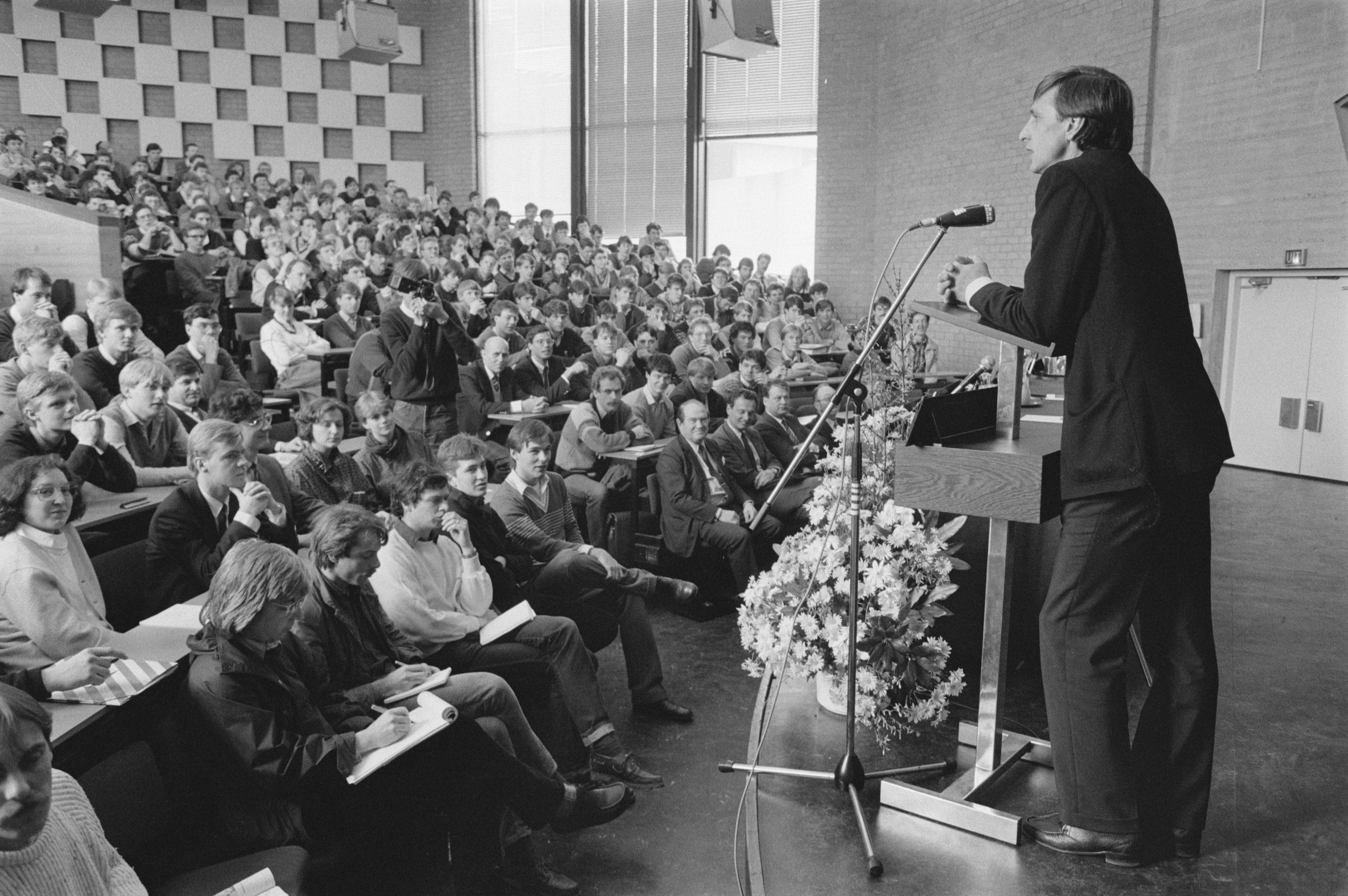 Johan Cruyff giving a lecture at Erasmus University Rotterdam (the Netherlands)